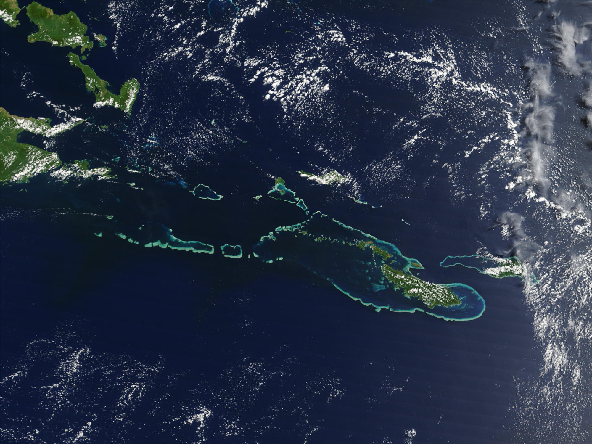 Off the southeast tip of Papua New Guinea lies a string of small volcanic islands and coral reefs collectively called the Louisiade Archipelago. This true-color MODIS image from September 11, 2002, is centered on the island chain, with Papua New Guinea at the left edge. Moving westward from eastern end of the chain are the islands of Rossel and Tagula. (Misima Island, which harbors the largest village in the region, is obscured by a patch of clouds northeast of image center.) To the north of the chain lies the Solomon Sea, and to the south is the Coral Sea. Most of the undisturbed land is covered by tropical rainforest, and despite their small size, the islands harbor a number of plant and animal species found nowhere else.